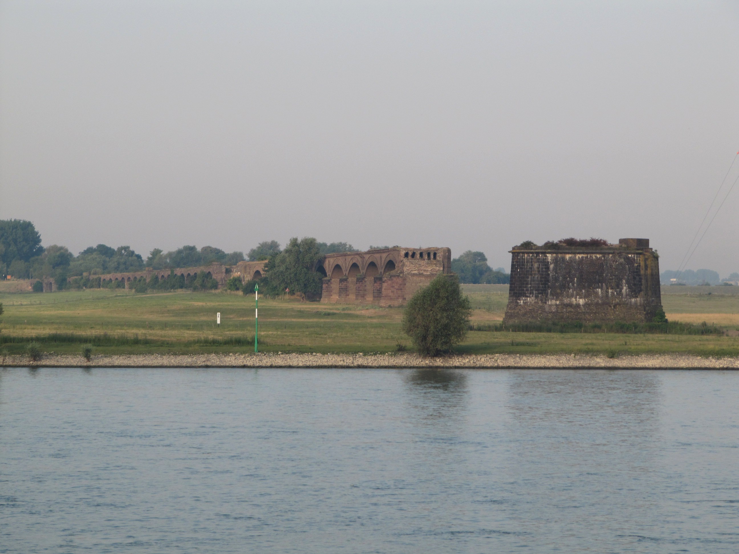 Wesel, old Rhine bridge; "Rheinaue zwischen Büderich und Perrich" nature reserve